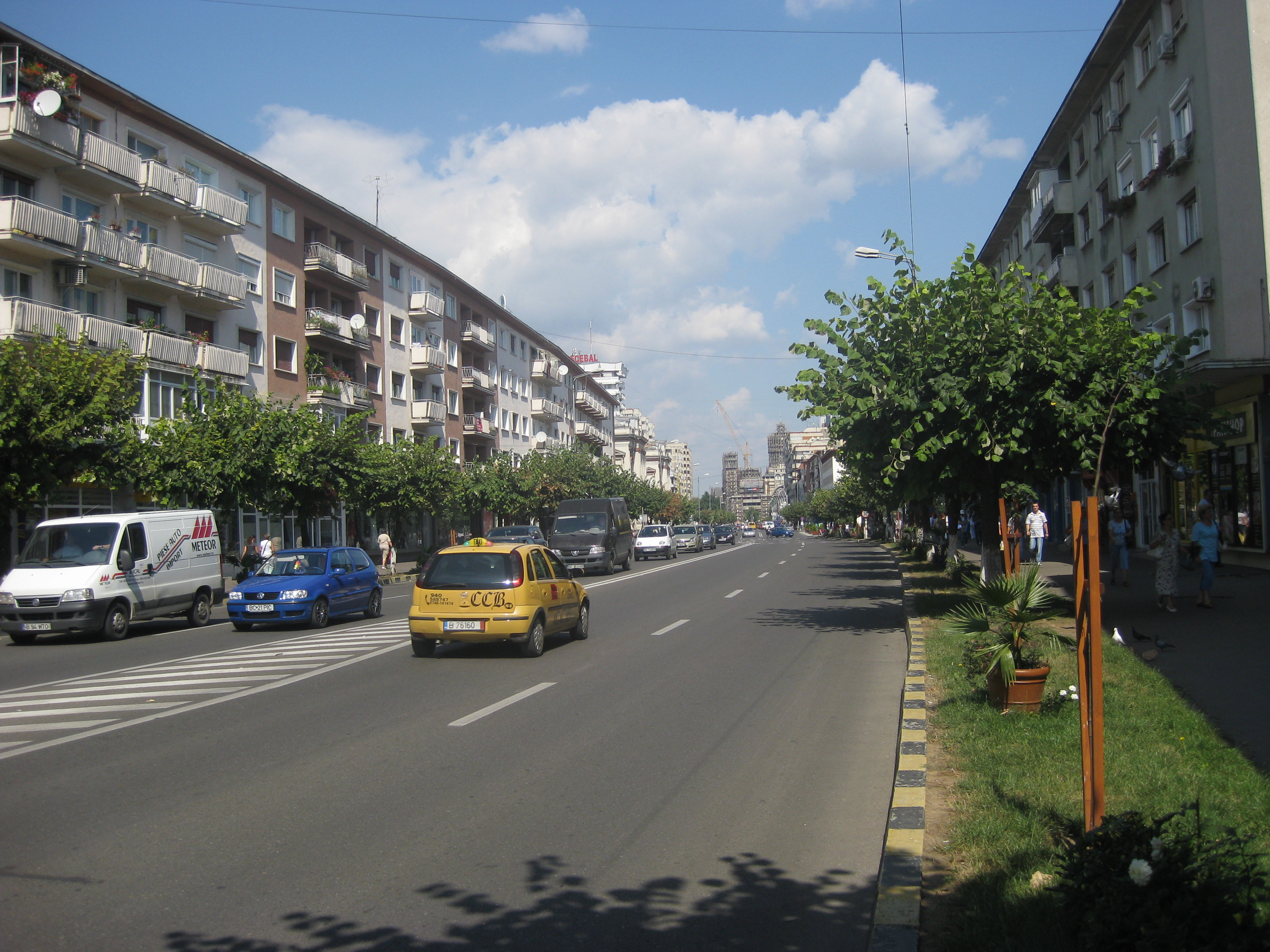 Bacau City centre